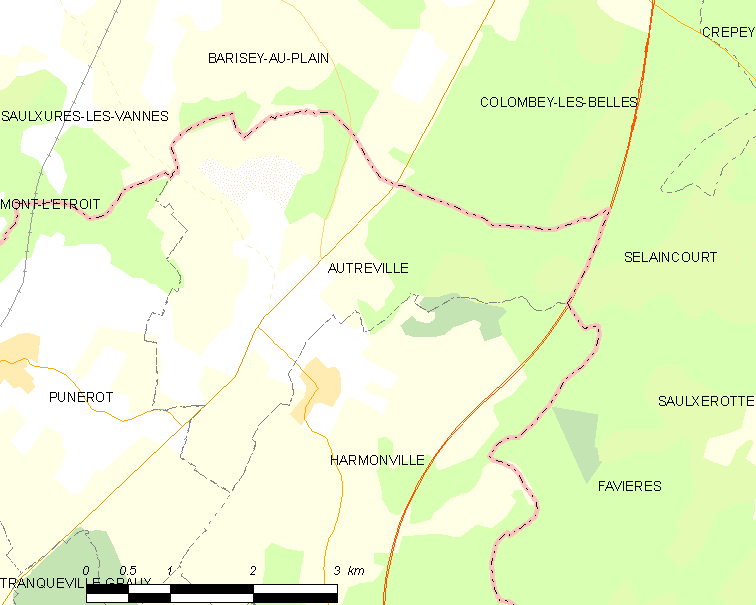 Map of French municipality Autreville